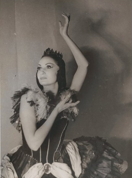 Sara Luzita as the Italian Ballerina in Gala performance at the Princess Theatre, Melbourne 15 January 1948 with the Ballet Rambert